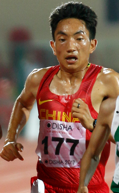 Athletes during 22nd Asian Athletics Championships in Bhubaneswar.